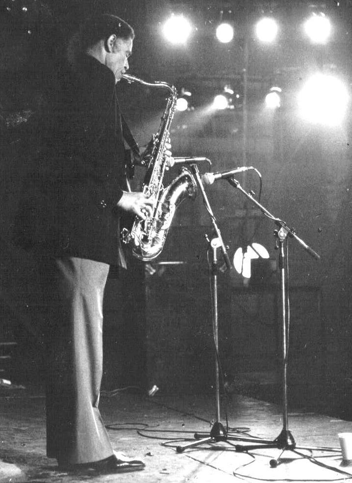 Dexter Gordon in Amsterdam (around 1980) Picture taken by Albert Kok